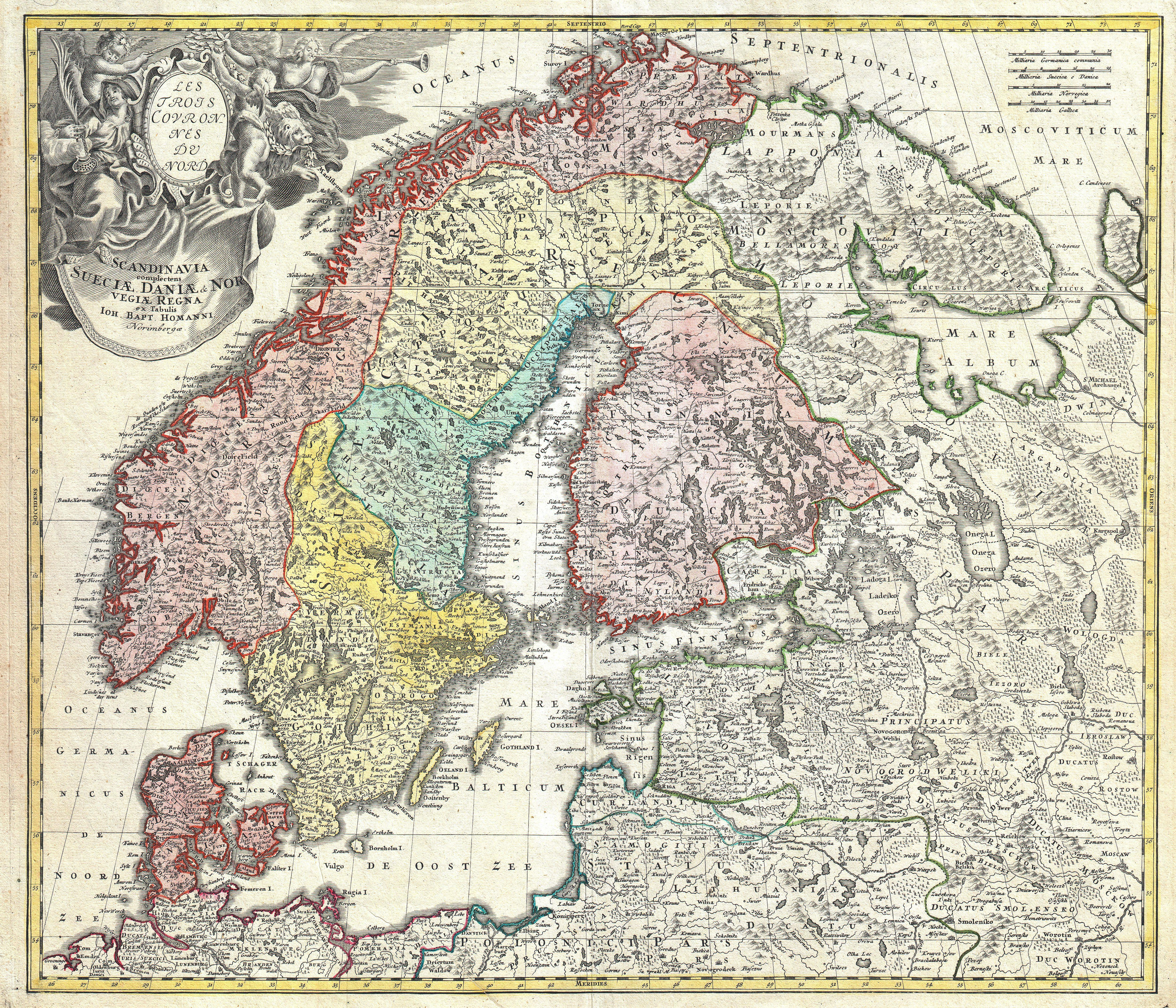 A detailed c. 1730 J. B. Homann map of Scandinavia. Depicts both Denmark, Norway, Sweden, Finland and the Baltic states of Livonia, Latvia and Curlandia. The map notes fortified cities, villages, roads, bridges, forests, castles and topography. The elaborate title cartouche in the upper left quadrant features angels supporting a title curtain and a medallion supporting an alternative title in French, Les Trois Covronnes du Nord . Printed in Nuremburg. This map must have been engraved before 1715 when Homann was appointed Geographer to the King. The map does not have the cum privilegio (with privilege; i.e. copyright authority given by the Emperor) as part of the title, however it was included in the c. 1750 Homann Heirs Maior Atlas Scholasticus ex Triginta Sex Generalibus et Specialibus…. as well as in Homann’s Grosser Atlas .